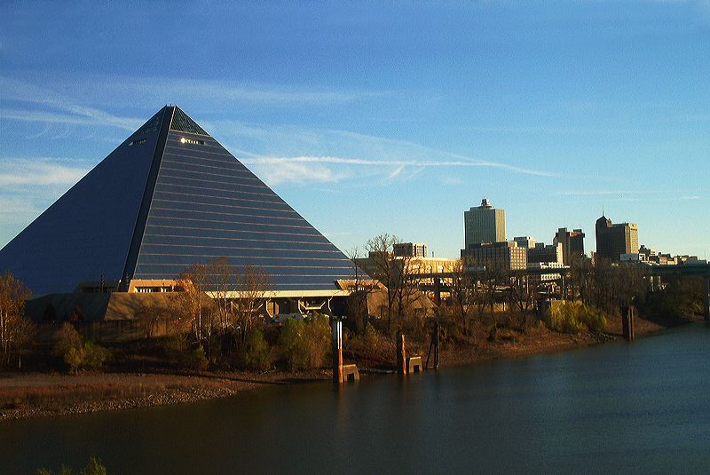 The Pyramid Arena in Memphis, Tennessee, in 2002.